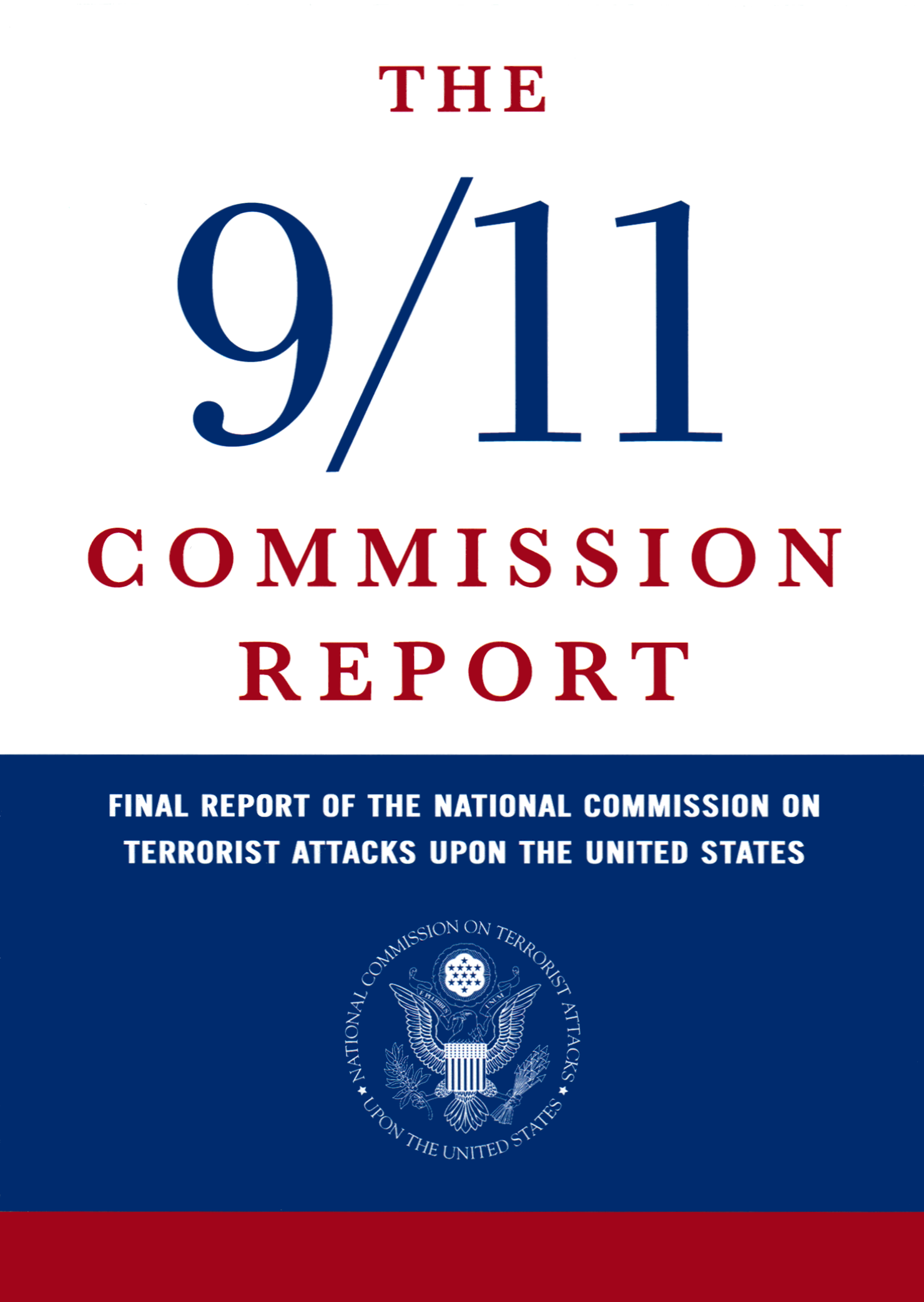 9/11 Commision Report cover.